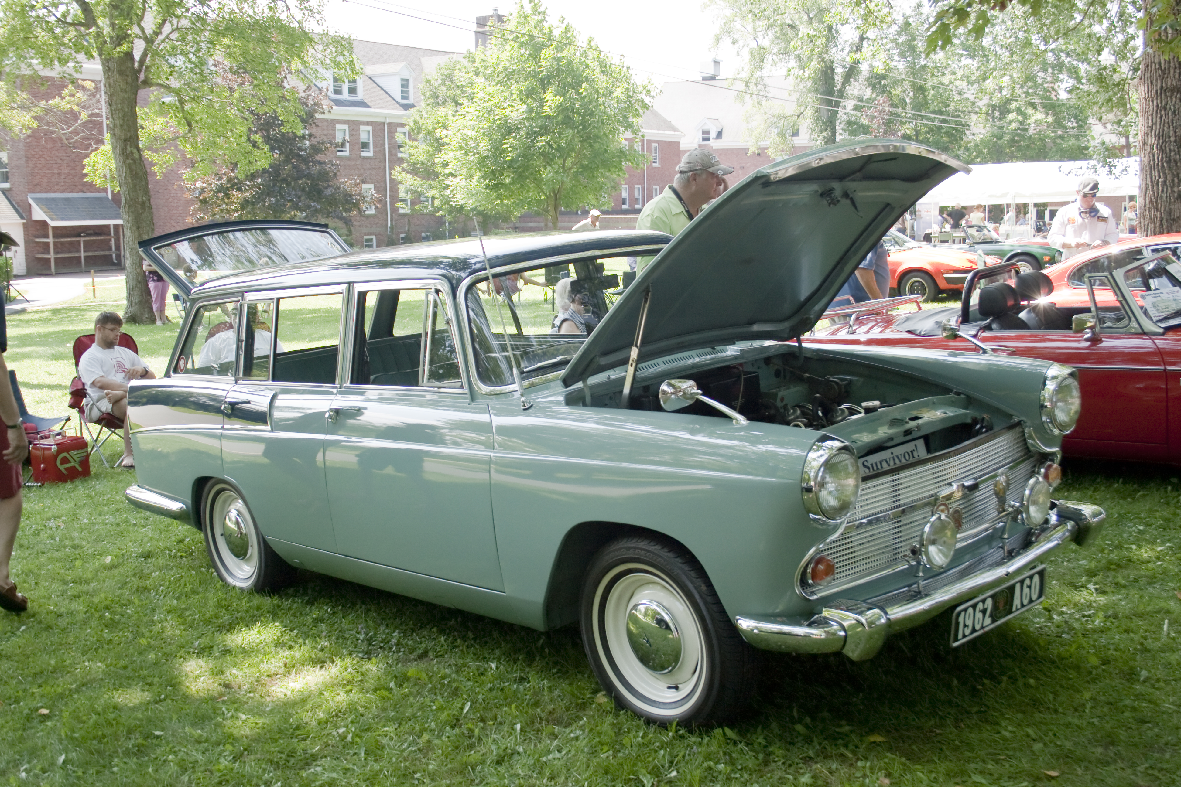 1962 Austin A60 Estate